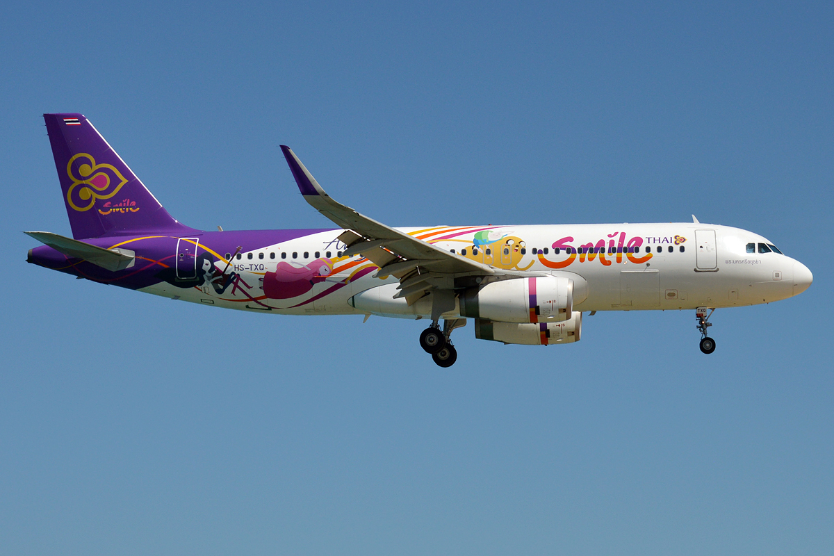 Thai Smile (Adventure Time livery), HS-TXQ, Airbus A320-232